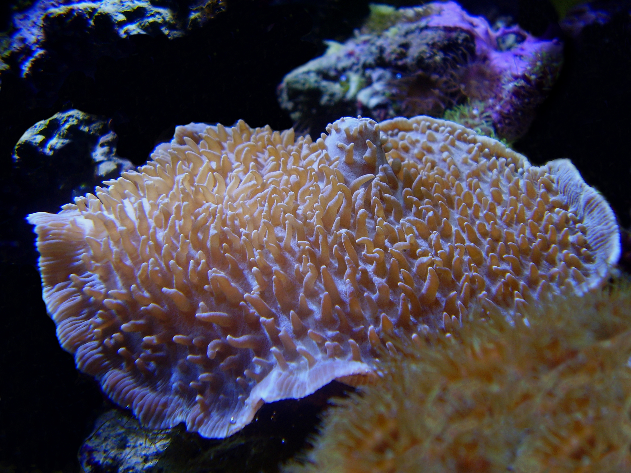 A large pink hairy mushroom coral (Rhodactis indosinensis) in an aquarium